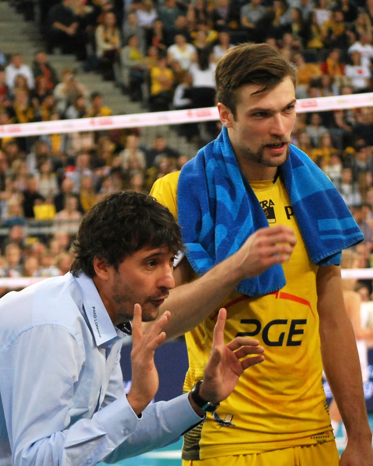 Miguel Falasca & Andrzej Wrona - coach and player